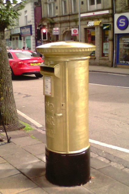 Gold Post Box for Danielle Brown. A post box in Skipton is now gold, in honour of Danielle Brown�s Paralympic gold medal win in the Archery: Women�s Individual Compound.